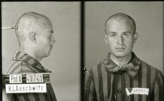 Julian Sawicki, Ukr. Юліа́н Сави́цький (1915-1945) – Ukrainian student, newsreader in Lwów Radio, prisoner of KL-Auschwitz, KL-Mauthausen, died in KL-Ebensee.